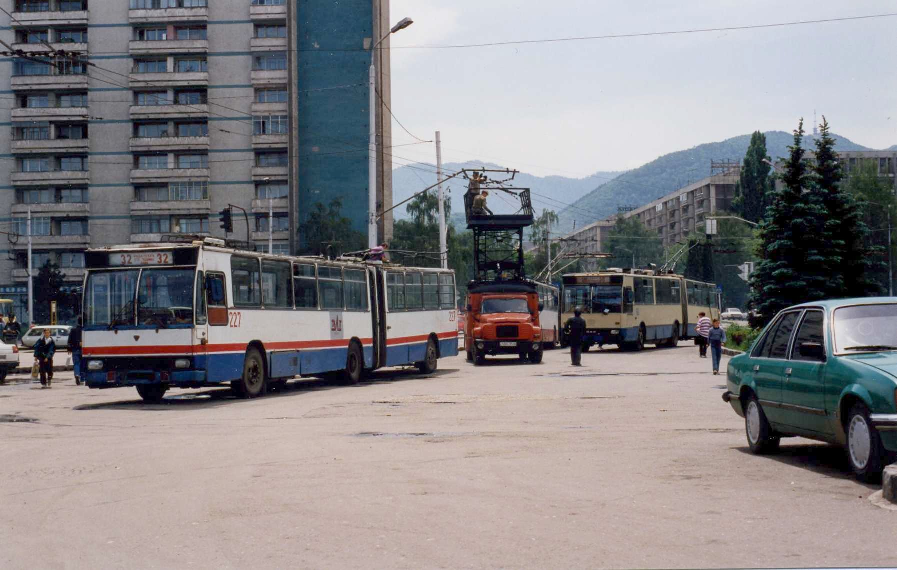 Trolleybus wire failure, with tower wagon in attendance and a pair of stranded DAC- Rocar trolleybuses. 227 was a 1987 Rocar 117EA.